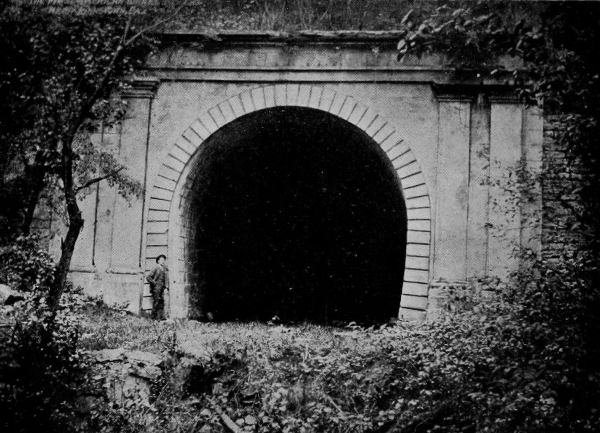 Portal of the abandoned tunnel of the Alleghany Portage Railroad near Johnstown, Pennsylvania, the first railroad tunnel in the United States